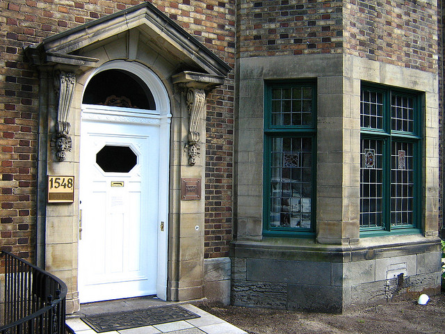 The entrance to the Bahá'í Shrine on rue des Pins, Montreal.